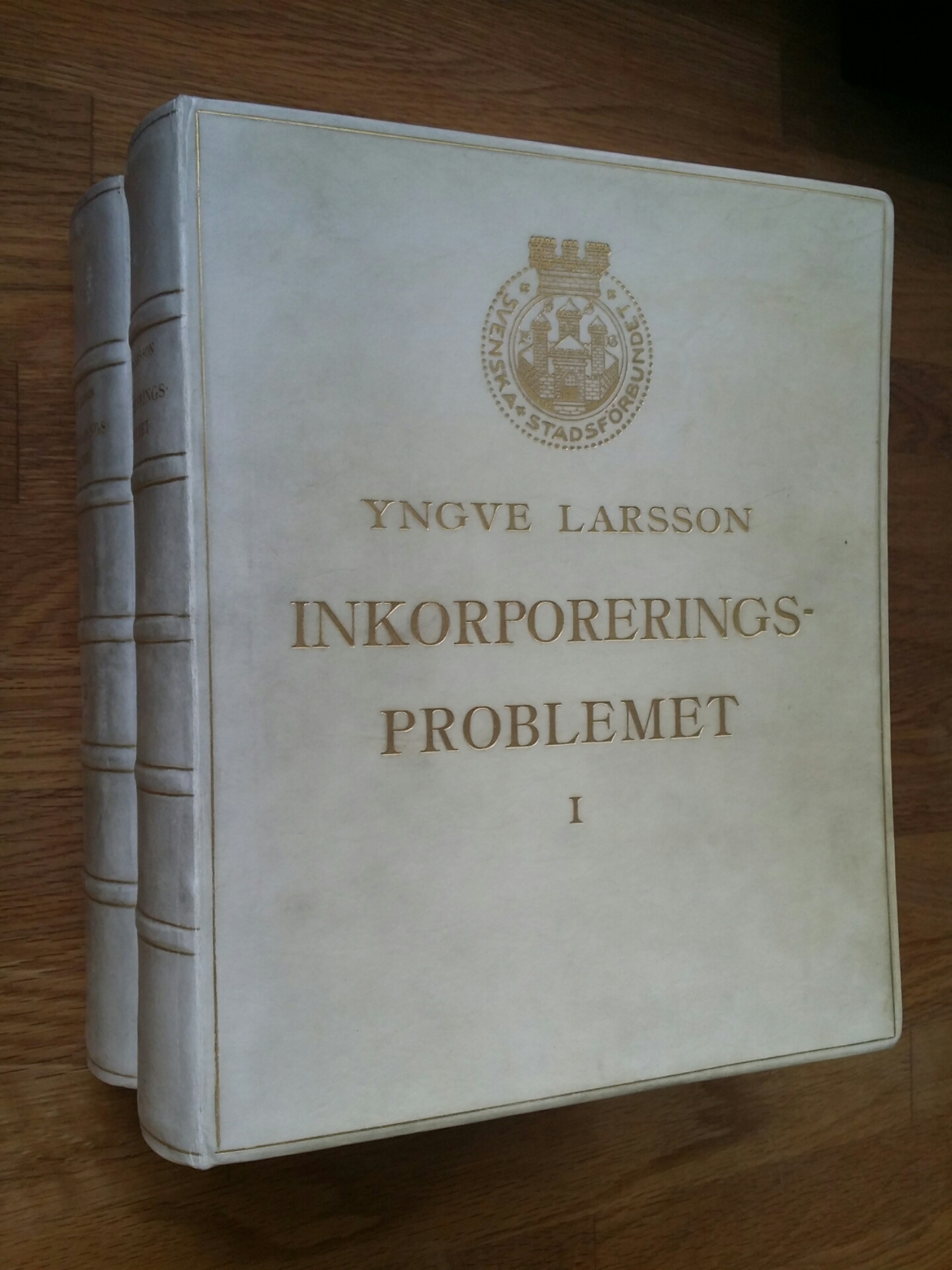 Dissertation by Yngve Larsson 1912